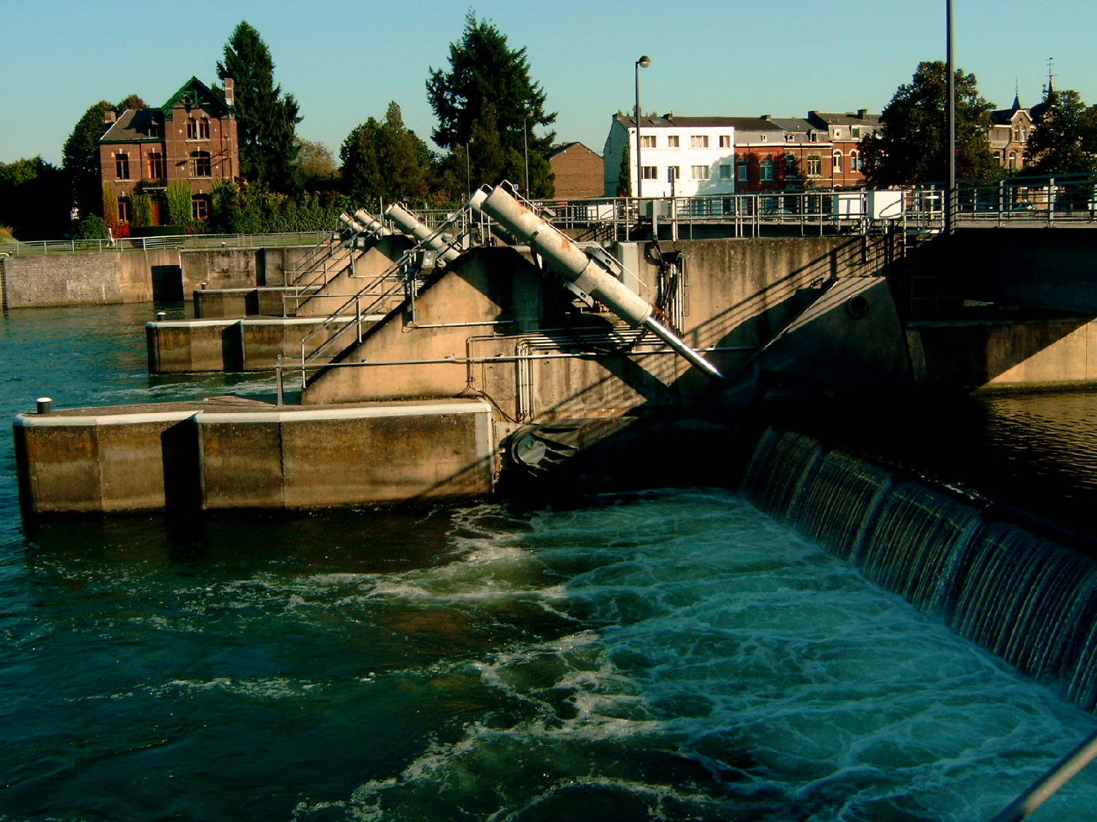 Weir in the Maas river at Jambes, Belgium.